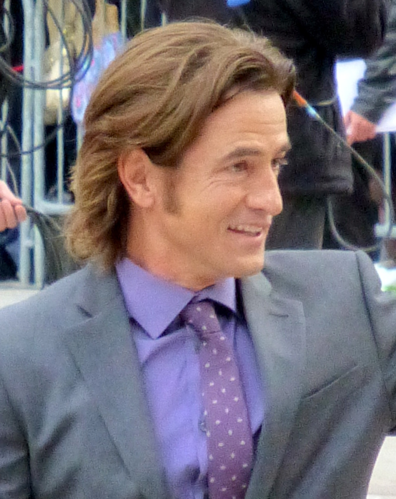 Dermot Mulroney at the premiere of August: Osage County, Toronto Film Festival 2013